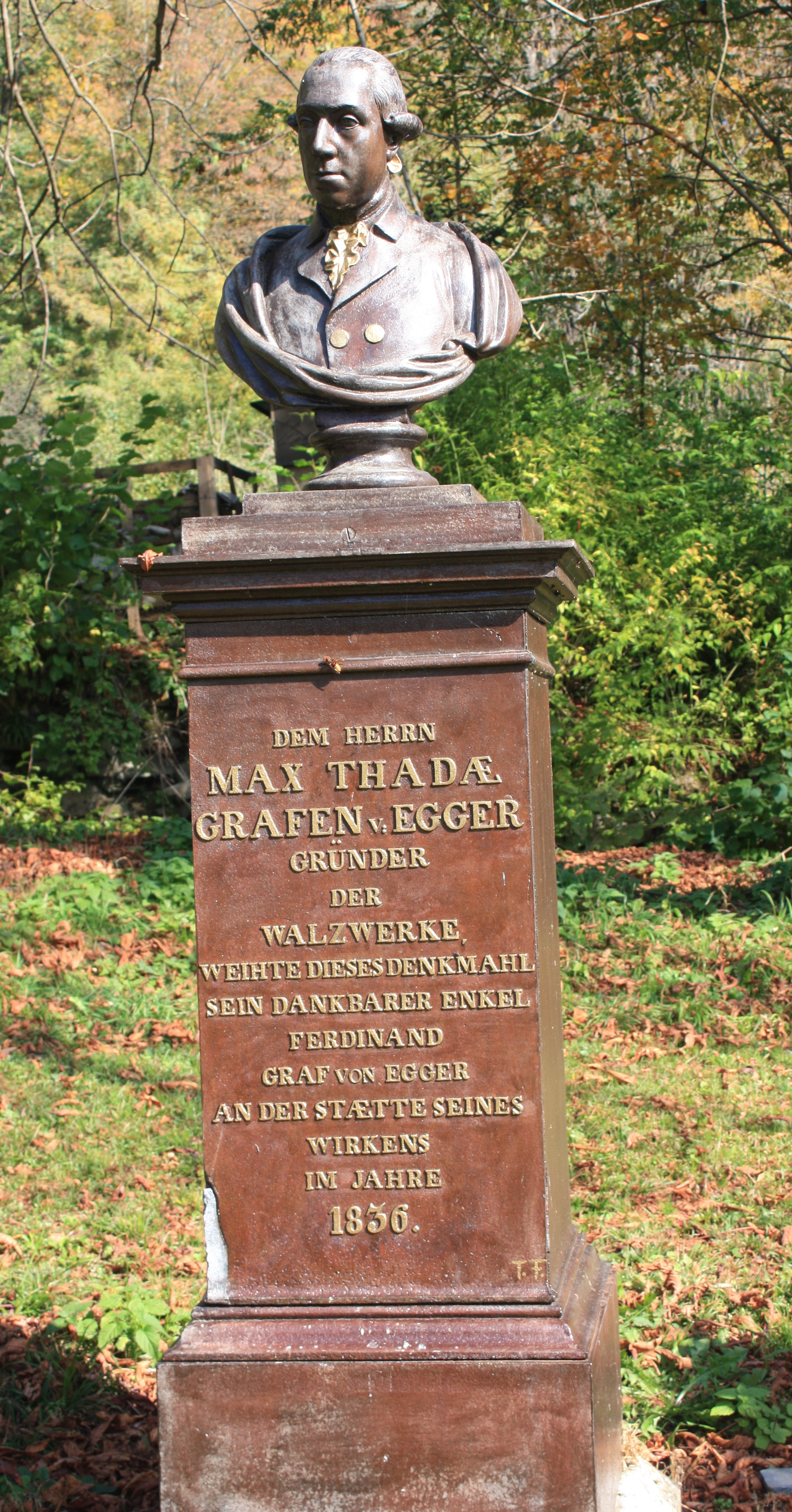 Monument of Max Thaddäus Graf Egger Lippitzbach in the community of Ruden